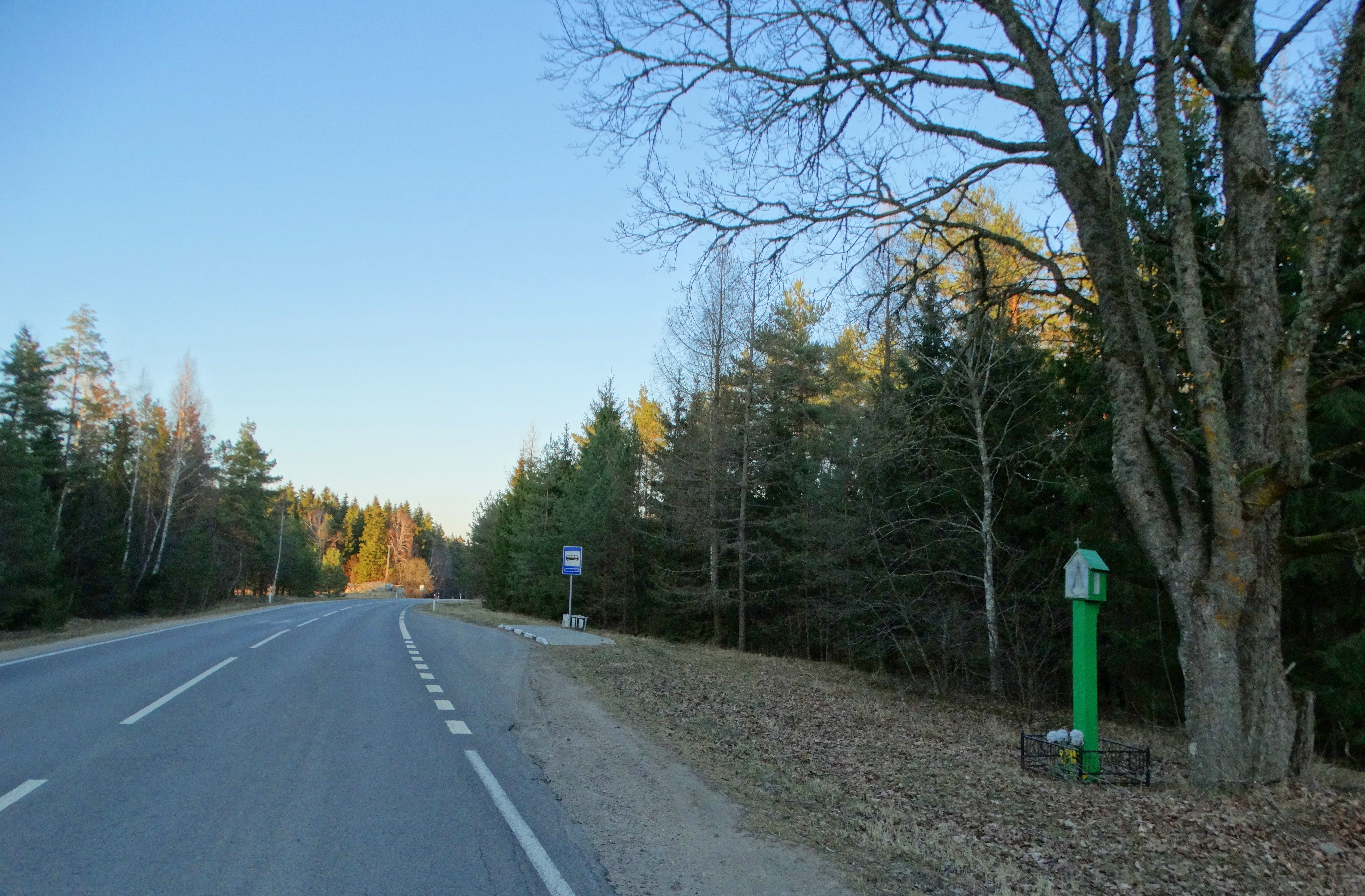 Regional road 159, Šiauliai district, Lithuania